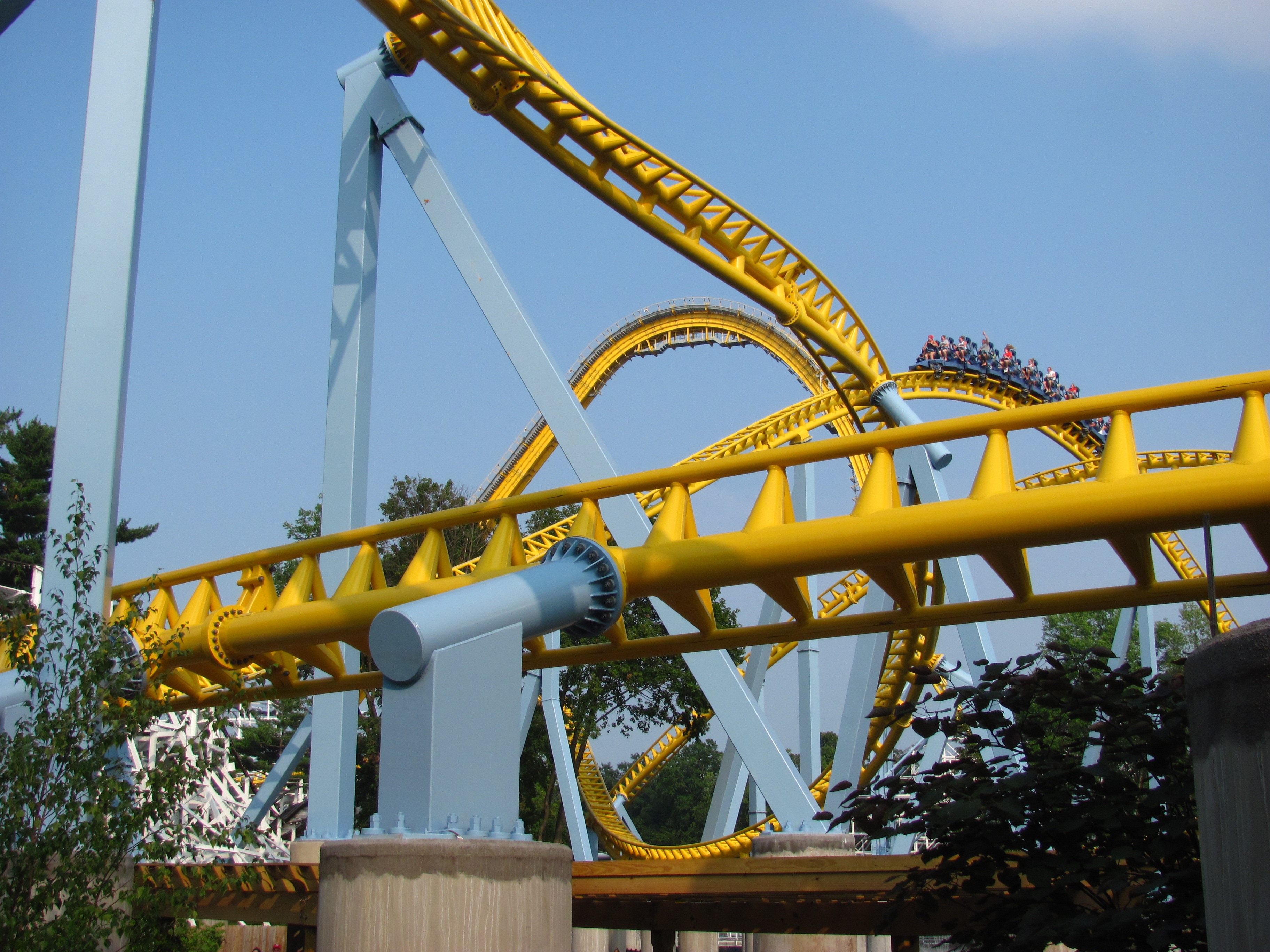 Hersheypark 064